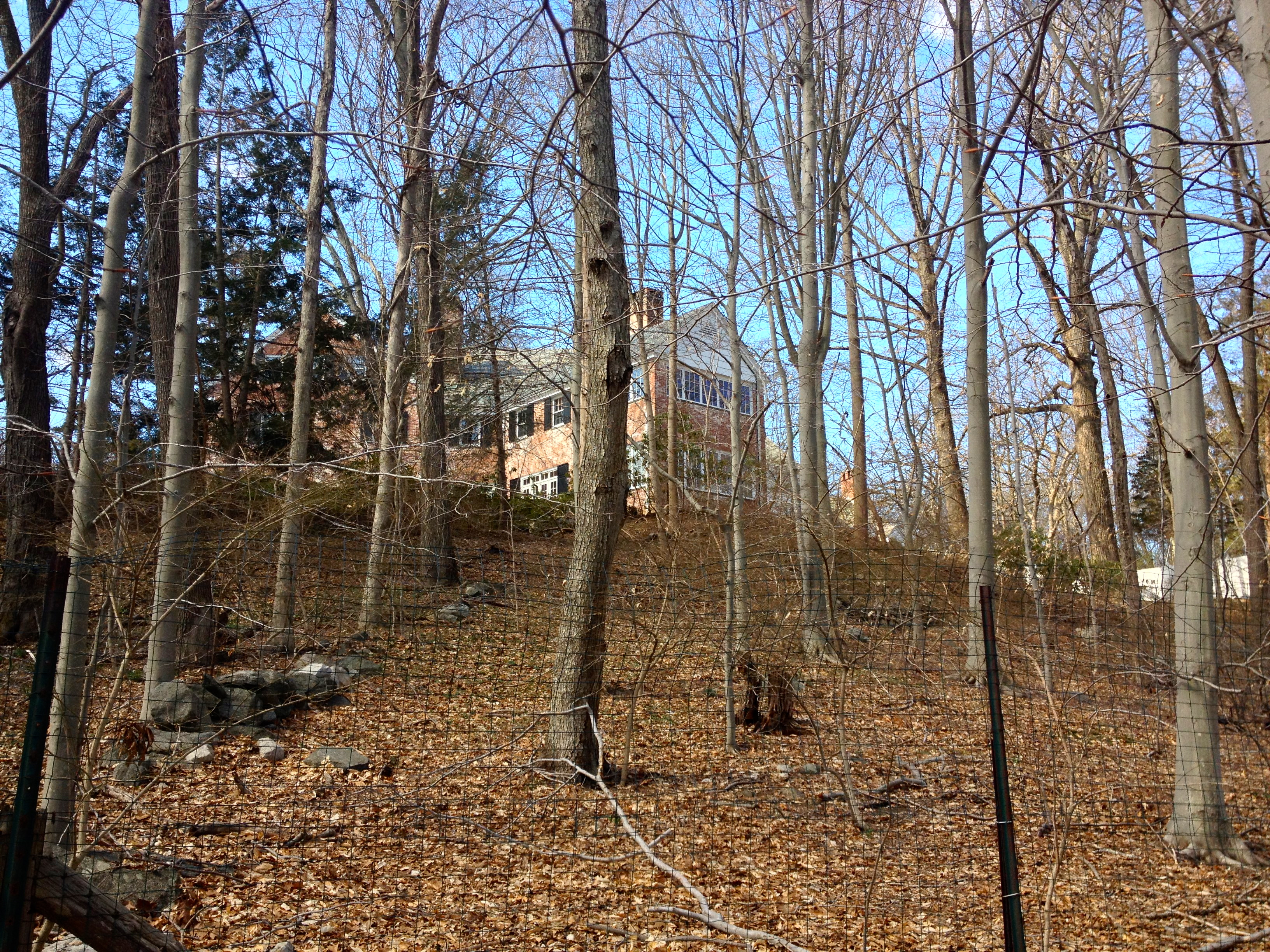 The Treetops Mansion viewed from Treetops State Park (Greenwich/Stamford, Connecticut).